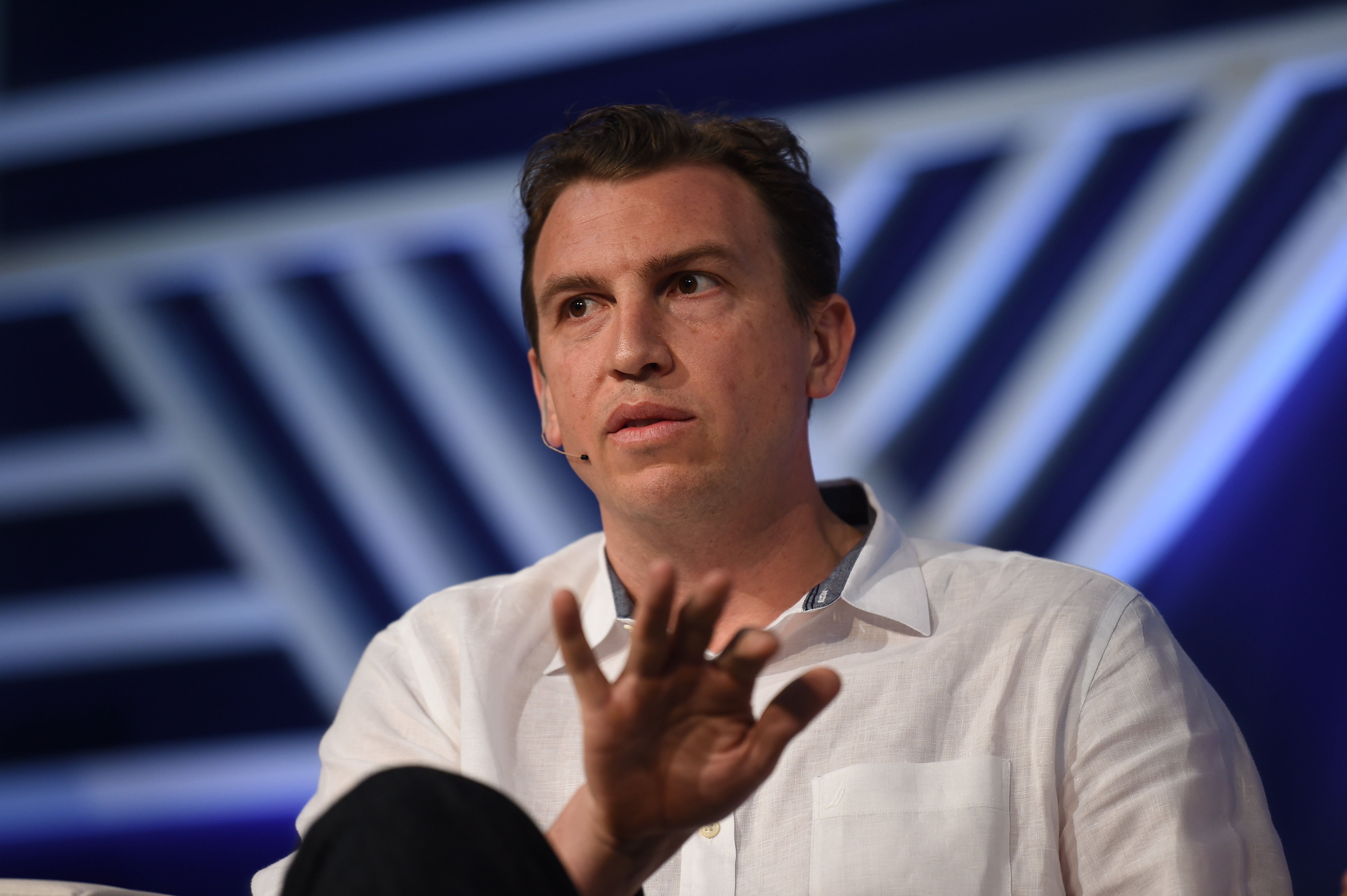 2 May 2018; Fritz Lanman, Classpass with Tom Cortese on the Panda Conf Creatiff stage during day two of Collision 2018 at Ernest N. Morial Convention Center in New Orleans. Photo by Diarmuid Greene/Collision via Sportsfile